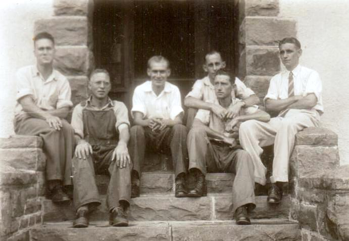 The Astronomers at the Boyden Observatory in front of the Boyden Observatory, Maselspoort circa 1941